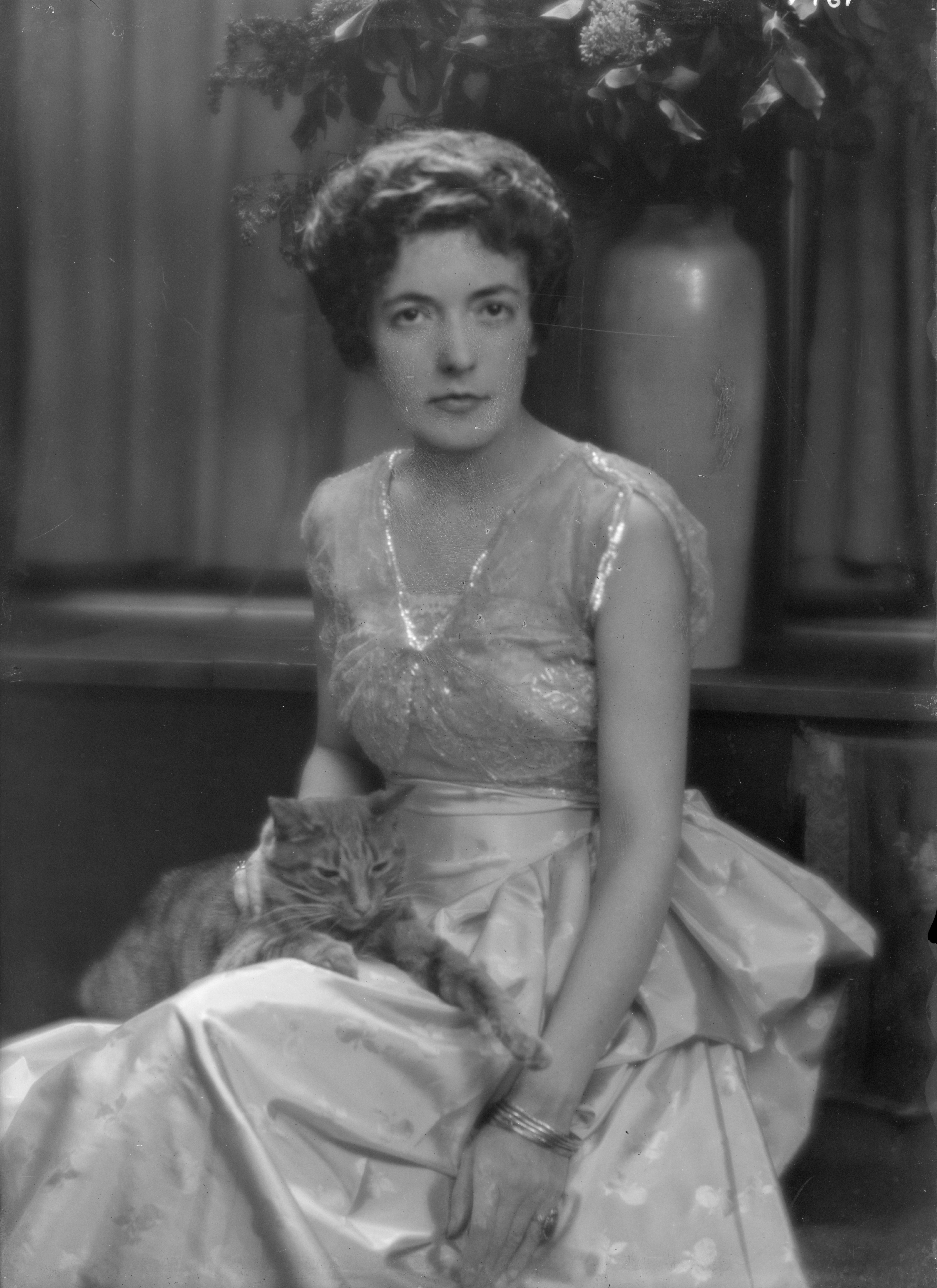 Title Ballard, Bernice, Mrs., with Buzzer the cat, portrait photograph Contributor Names Genthe, Arnold, 1869-1942, photographer Created / Published 1916 May 19. Subject Headings - Genthe, Arnold,--1869-1942--Animals & pets. Format Headings Glass negatives. Portrait photographs. Notes - Purchase; Genthe Estate; 1942 or 1943. - 1933; NY 10r; RR card; sleeves Medium 1 negative : glass ; 5 x 7 in. Call Number/Physical Location LC-G432- 1461 [P&P]